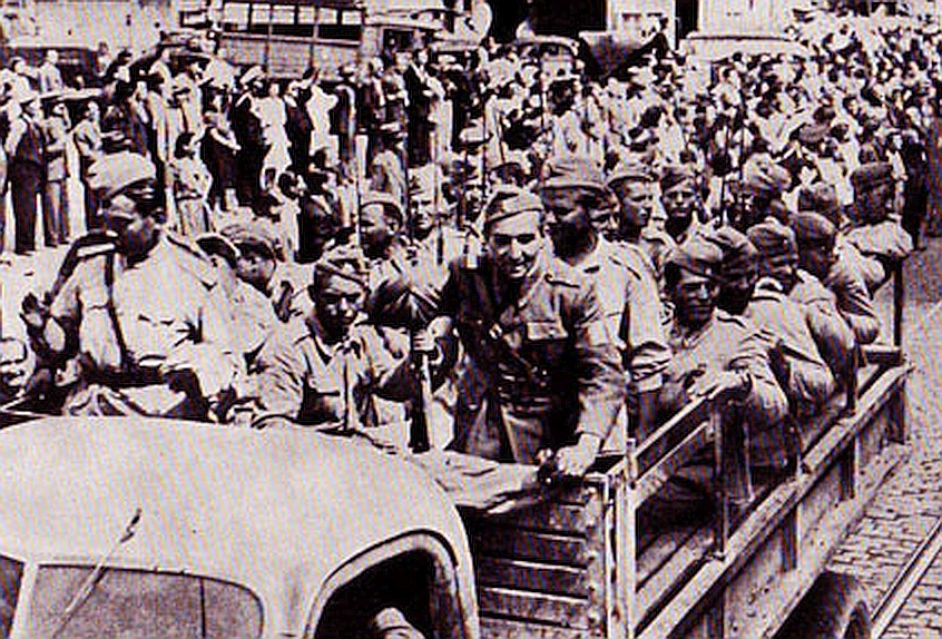 Entry of the Allied Romanian division Tudor Vladimirescu (founded 1943) in Bucharest, sommer 1944